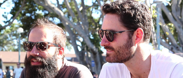 Capital Cities in interview with Walmart Soundcheck Risers in 2013